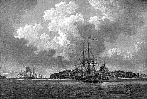 An illustration from The Voyage of Governor Phillip to Botany Bay Original caption: A View of Botany Bay